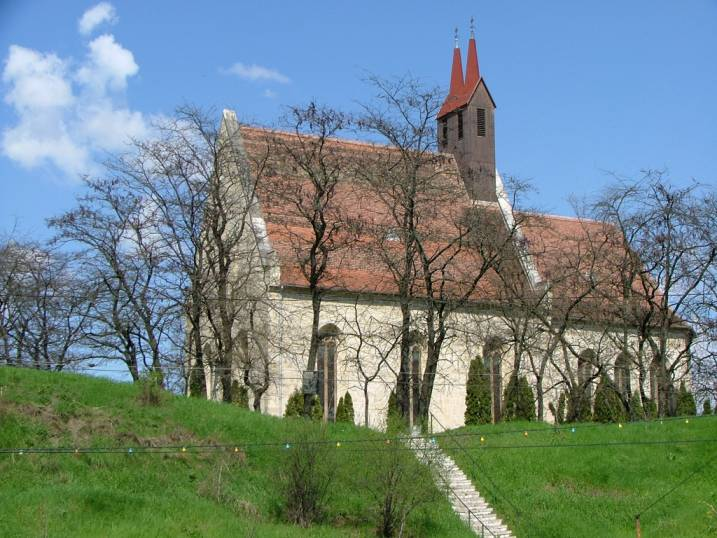 Calvaria Church in Cluj-Napoca - south-west view, Romania